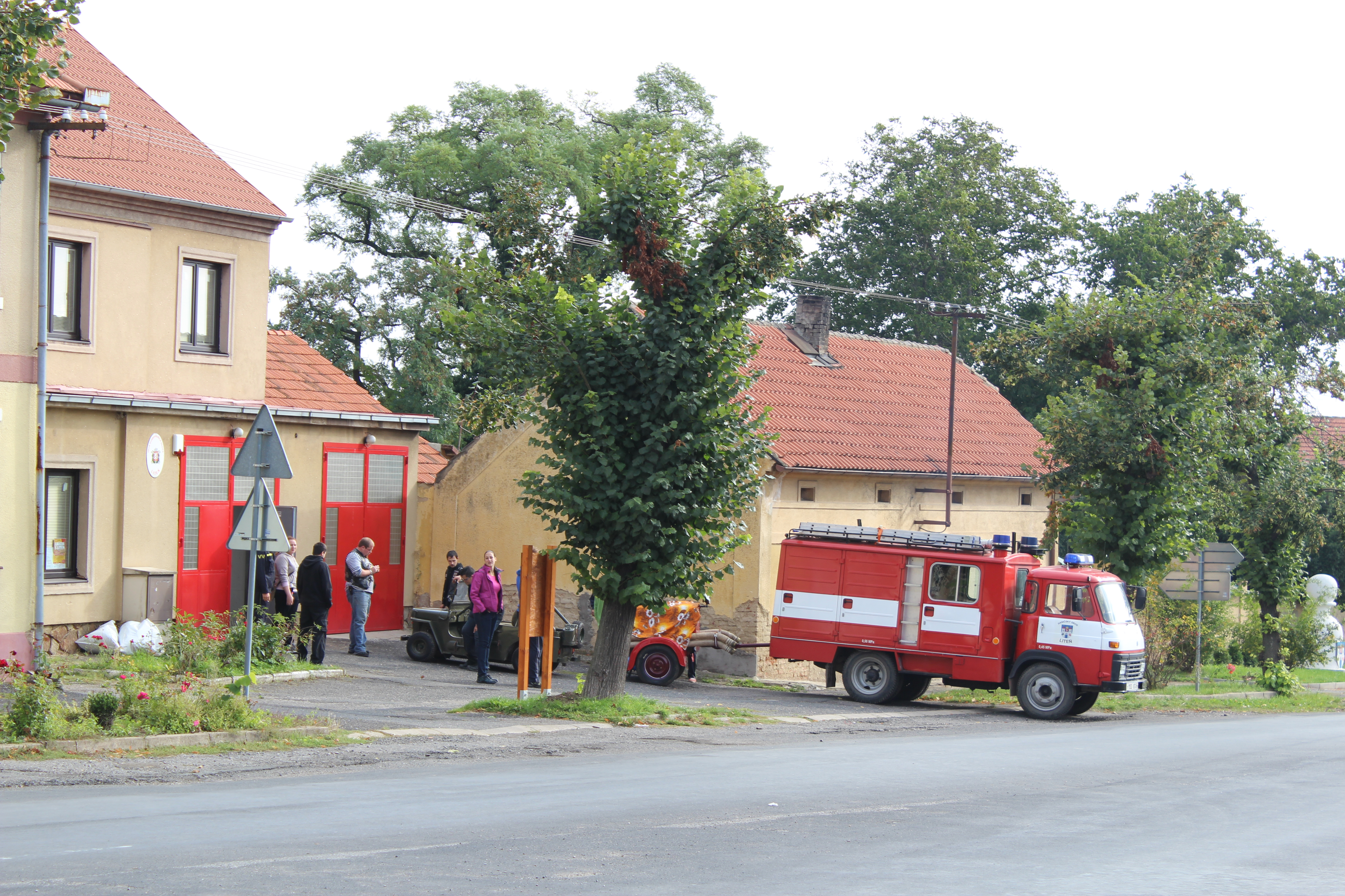 Fire station in Liteň (Beroun District)